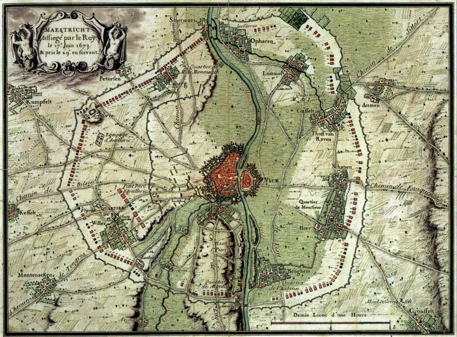 Map of 1673 showing the circumvallation works by the army of Louis XIV of France that isolated the besieged city of Maastricht and forced it to surrender after two weeks.